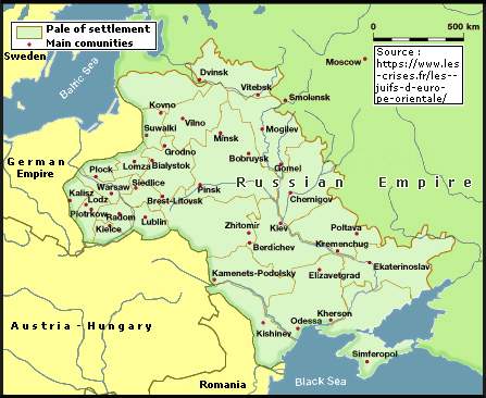 Pale of Jewish settlement in the Russian empire until 1917